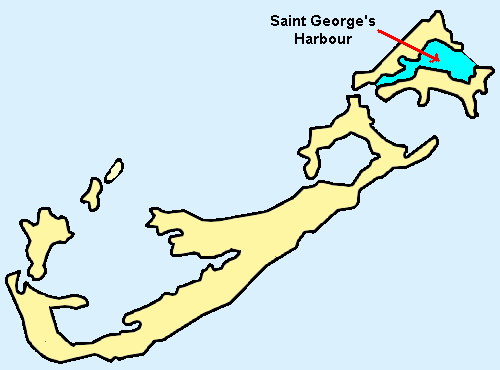 Bermuda-Saint George's Harbour.png